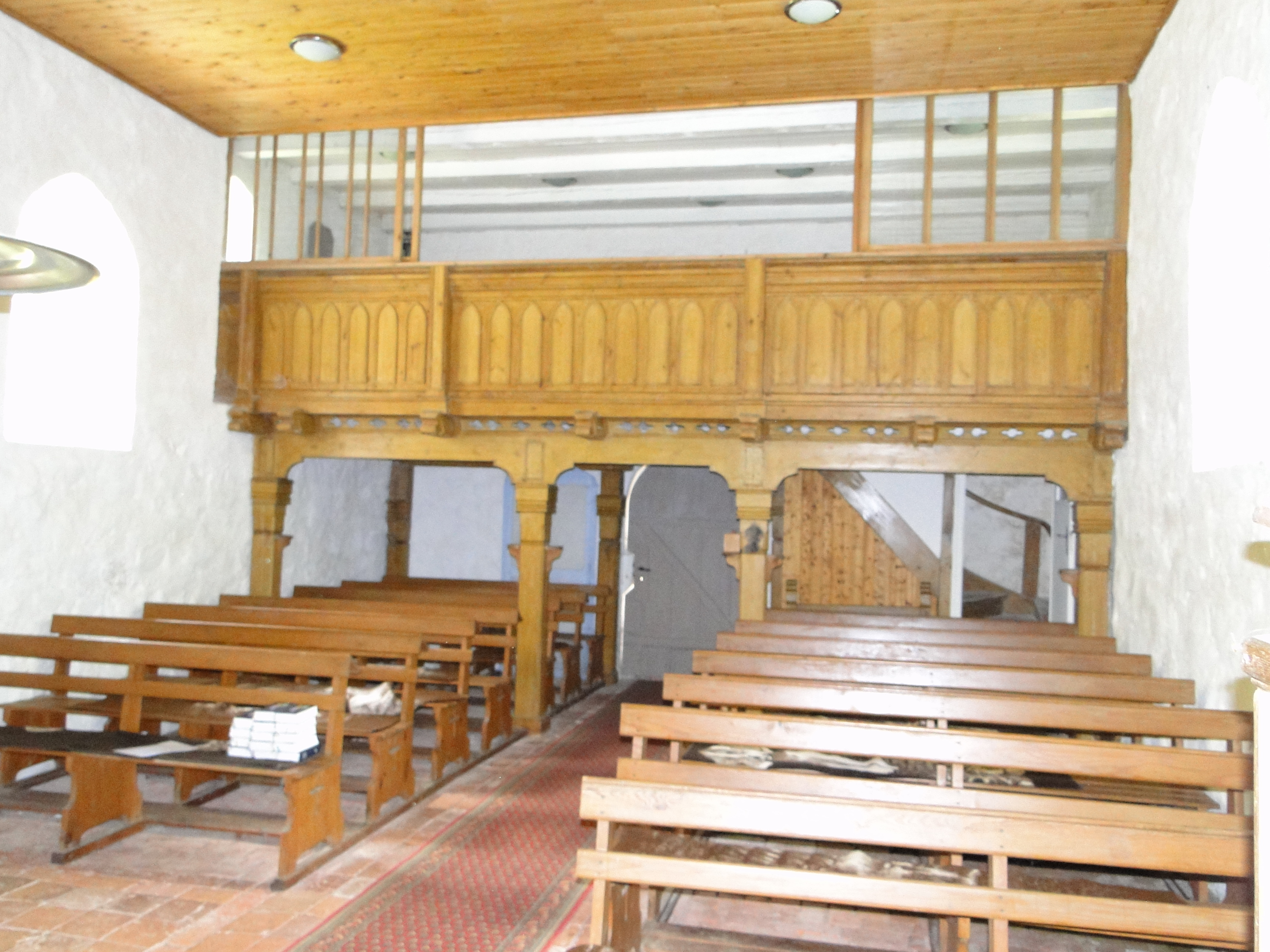 Church in Groß Niendorf, district Ludwigslust-Parchim, Mecklenburg-Vorpommern, Germany